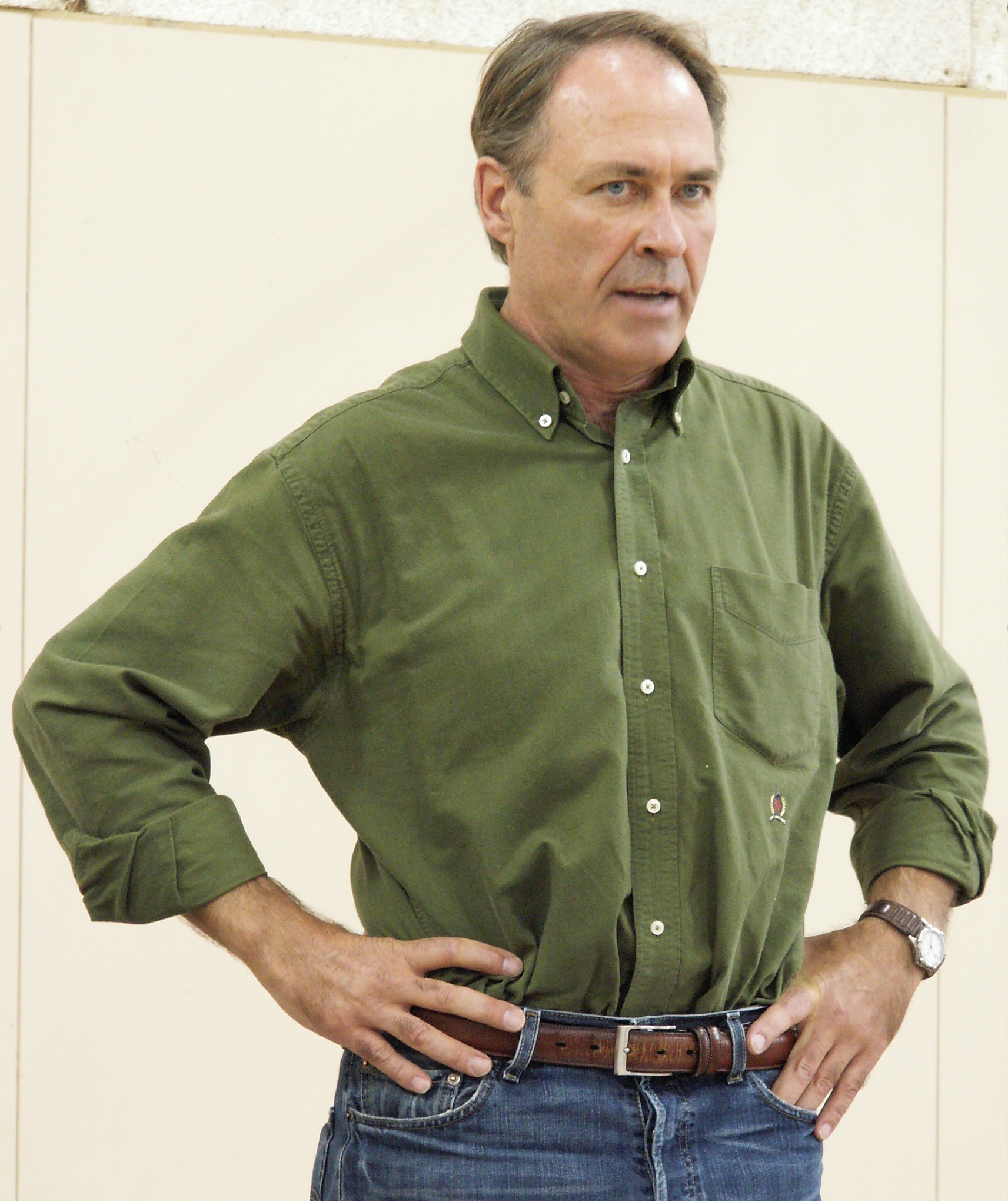 Pat Martin at town hall debate